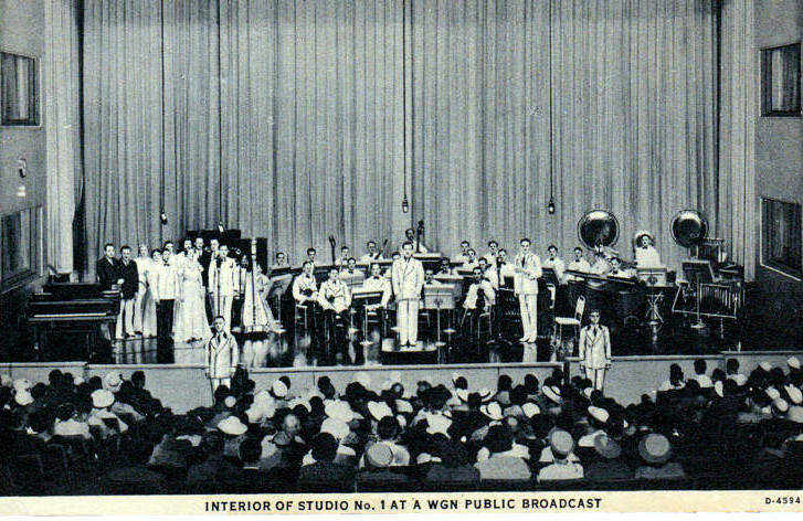 Postcard photo of the old main studio of WGN radio in Tribune Tower which was able to accommodate a large radio audience.